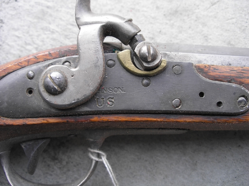 This R. Johnson made US Model 1814 was converted to percussion cap. The percussion lock also has Johnson's name engrave on it.